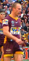 Rugby league player Darren Lockyer